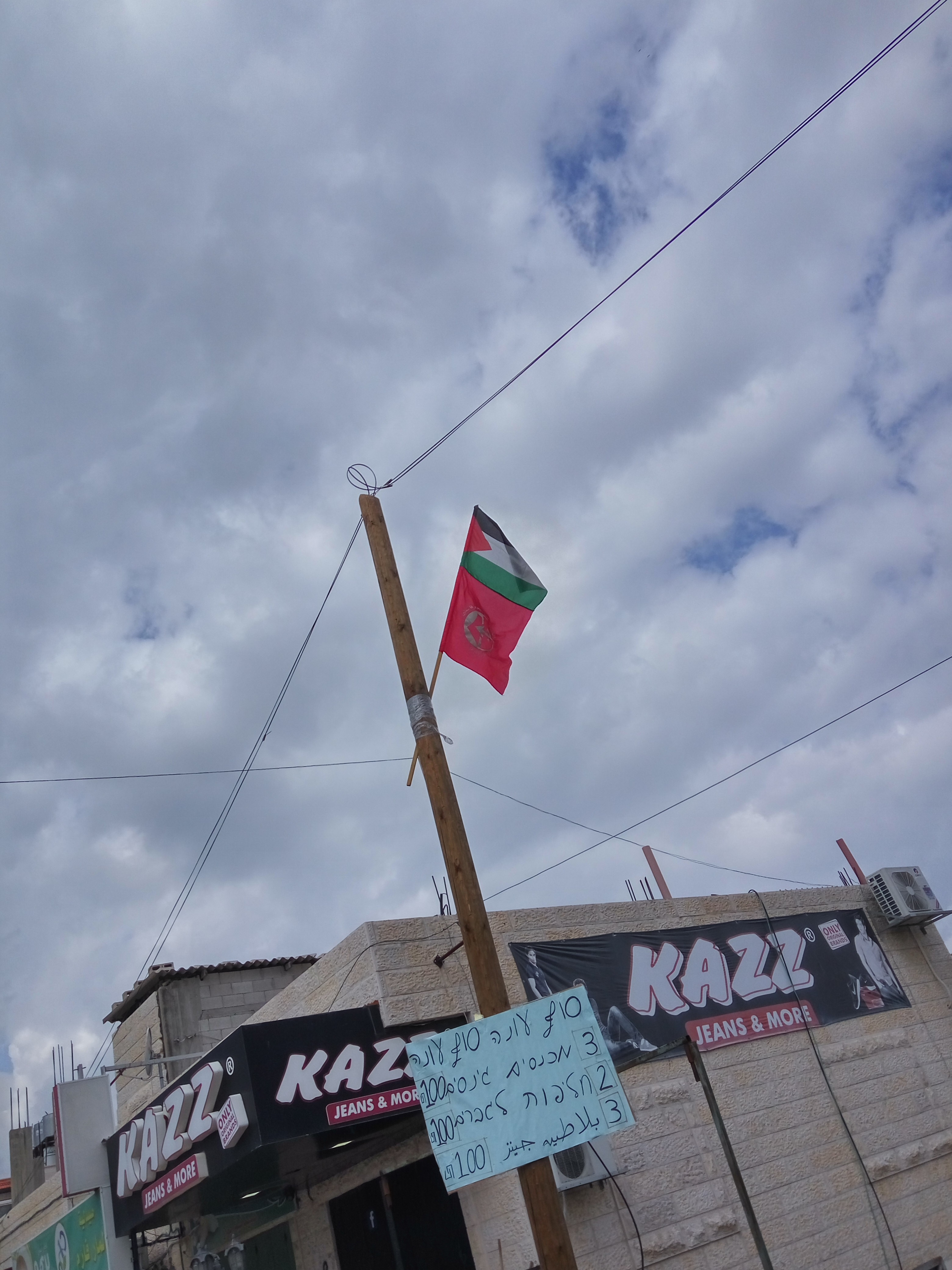 Flag of Popular Front for the Liberation of Palestine (PFLP) in Ni'in, March 2017